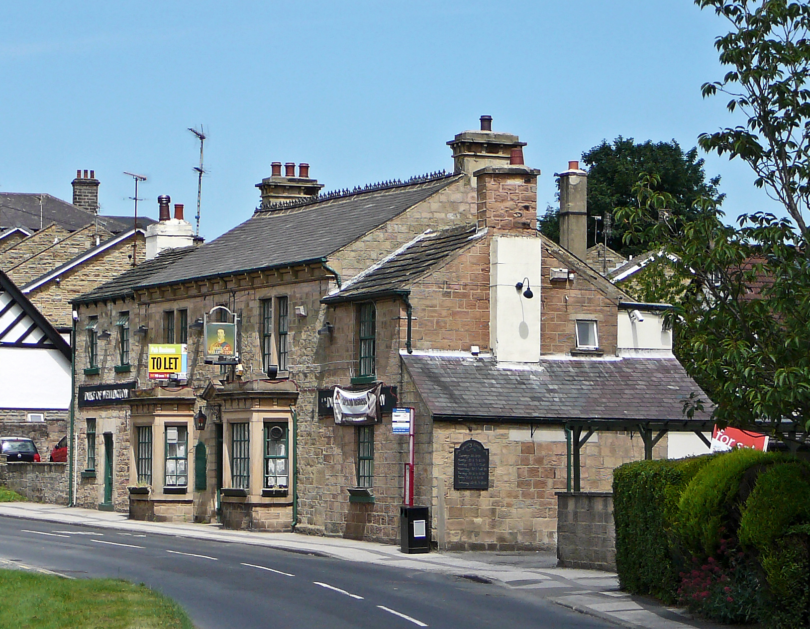 The Duke of Wellington public house in East Keswick, West Yorkshire. Taken on Saturday the 11th of July 2009.